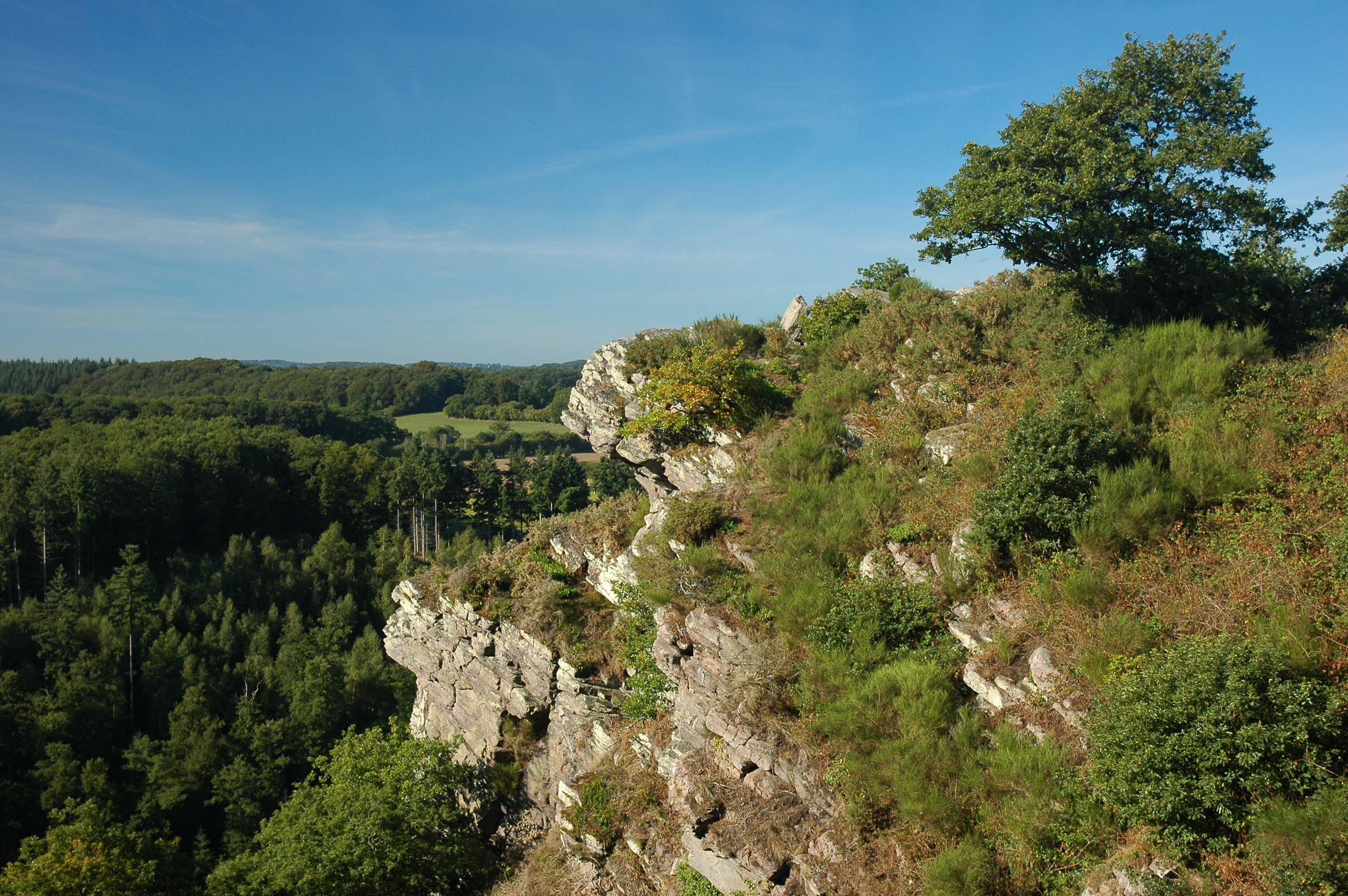 La Roche d’Oëtre